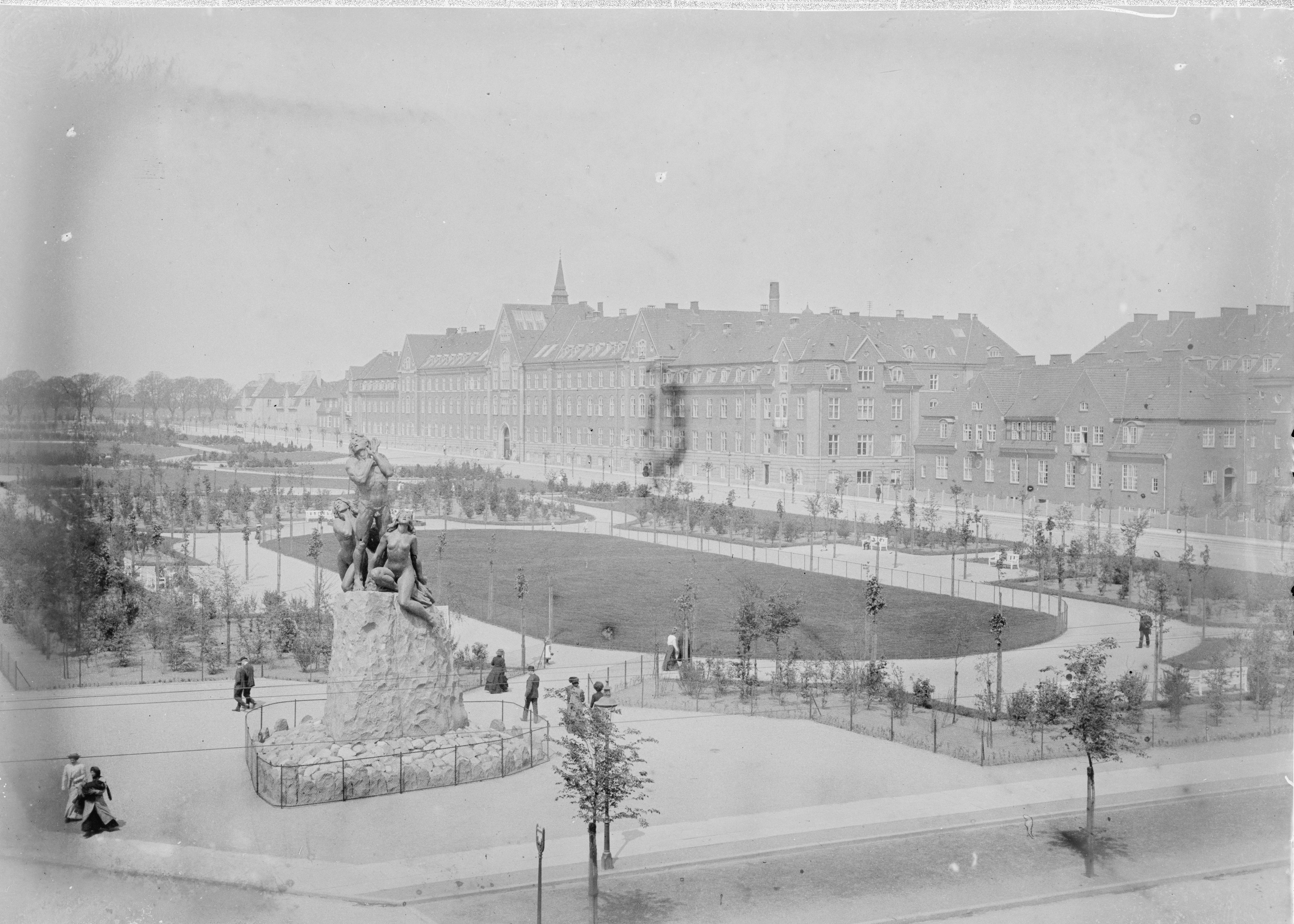 Amorparken with Rigshospitalet in the background